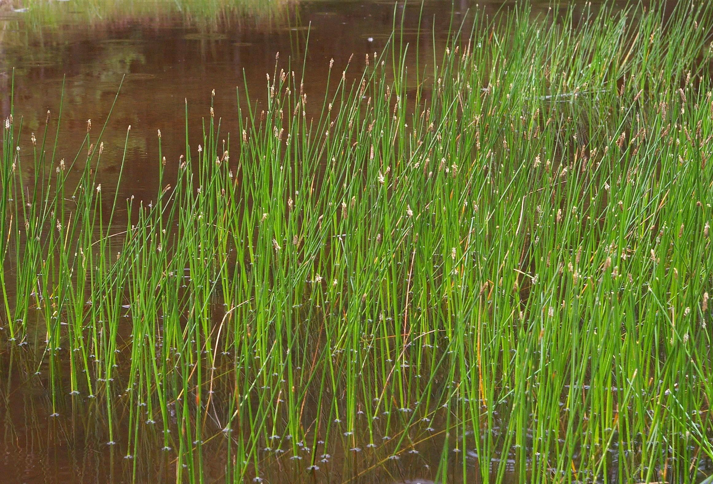 Eleocharis palustris (probable ssp. palustris) in a typical habitat.